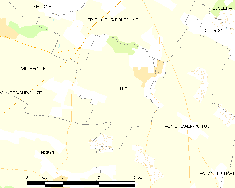 Map of French municipality Juillé